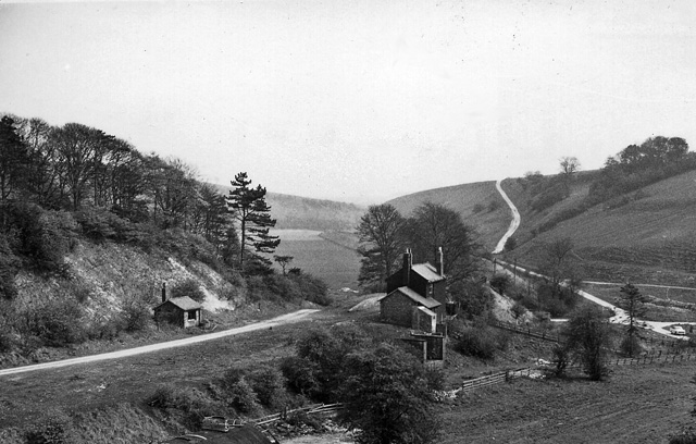 Burdale Station (remains) View SE, towards Driffield; ex-North Eastern, Malton - Driffield line. The station closed to passengers when the service ceased on 5/6/50, but they remained open for goods until 20/10/58.